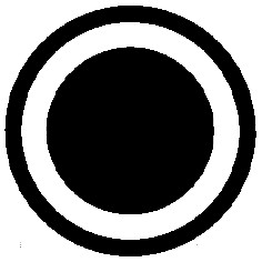 Sign for Japanese National Treasure